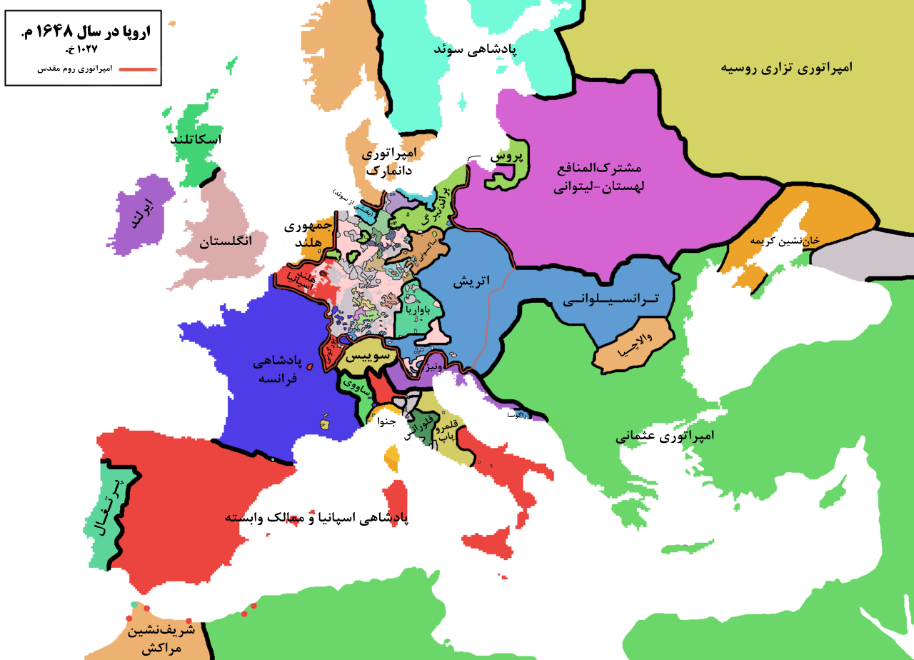 This map is a Persian translation of an English map originated by user "Germ". The main file is "Map of Europe 1648.PNG".